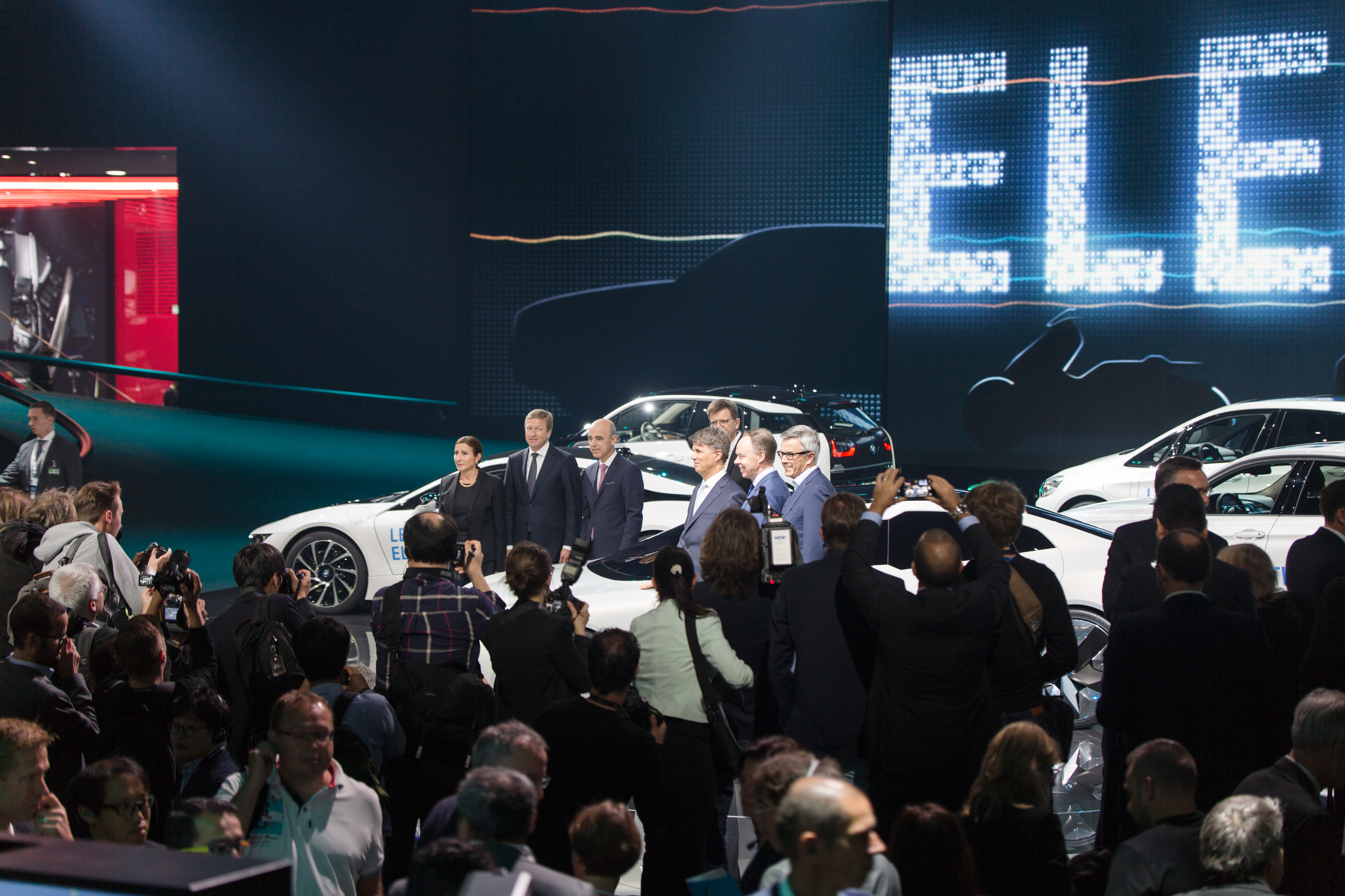 BMW press conference, IAA 2017